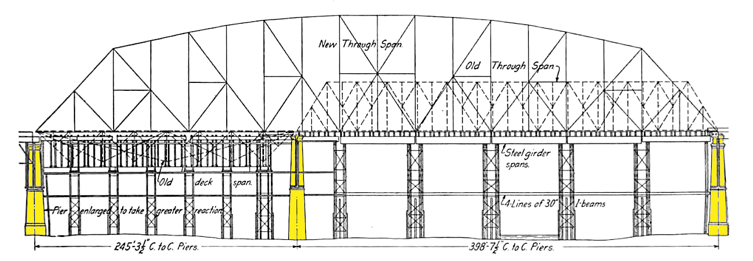 Elevation of Falsework Under the 644-Foot Span, PRR Bridge / Fourteenth Street Bridge, Louisville, Kentucky.